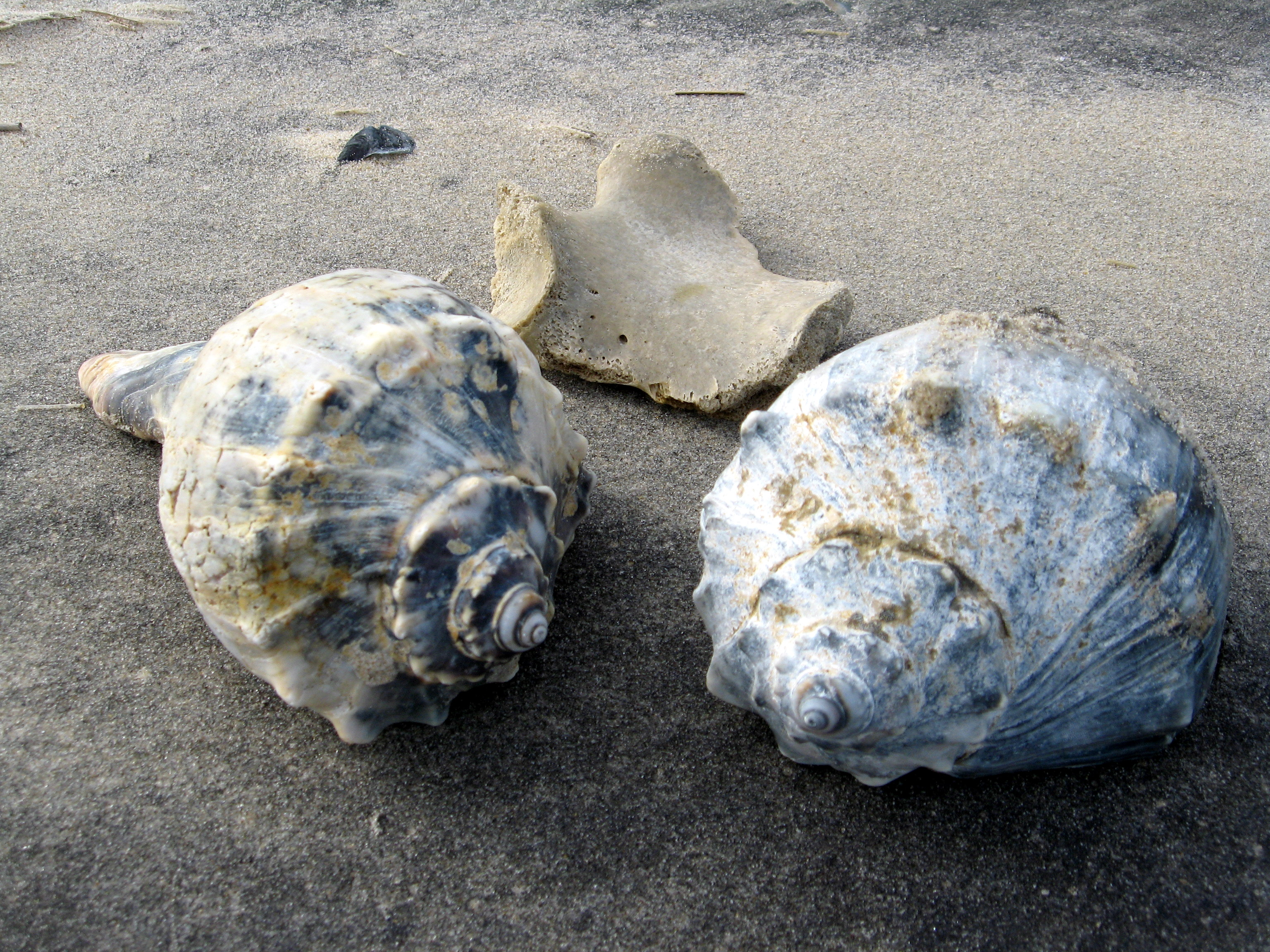 Photo of shells of Knobbed whelks Busycon carica and a whale or dolphin bone.